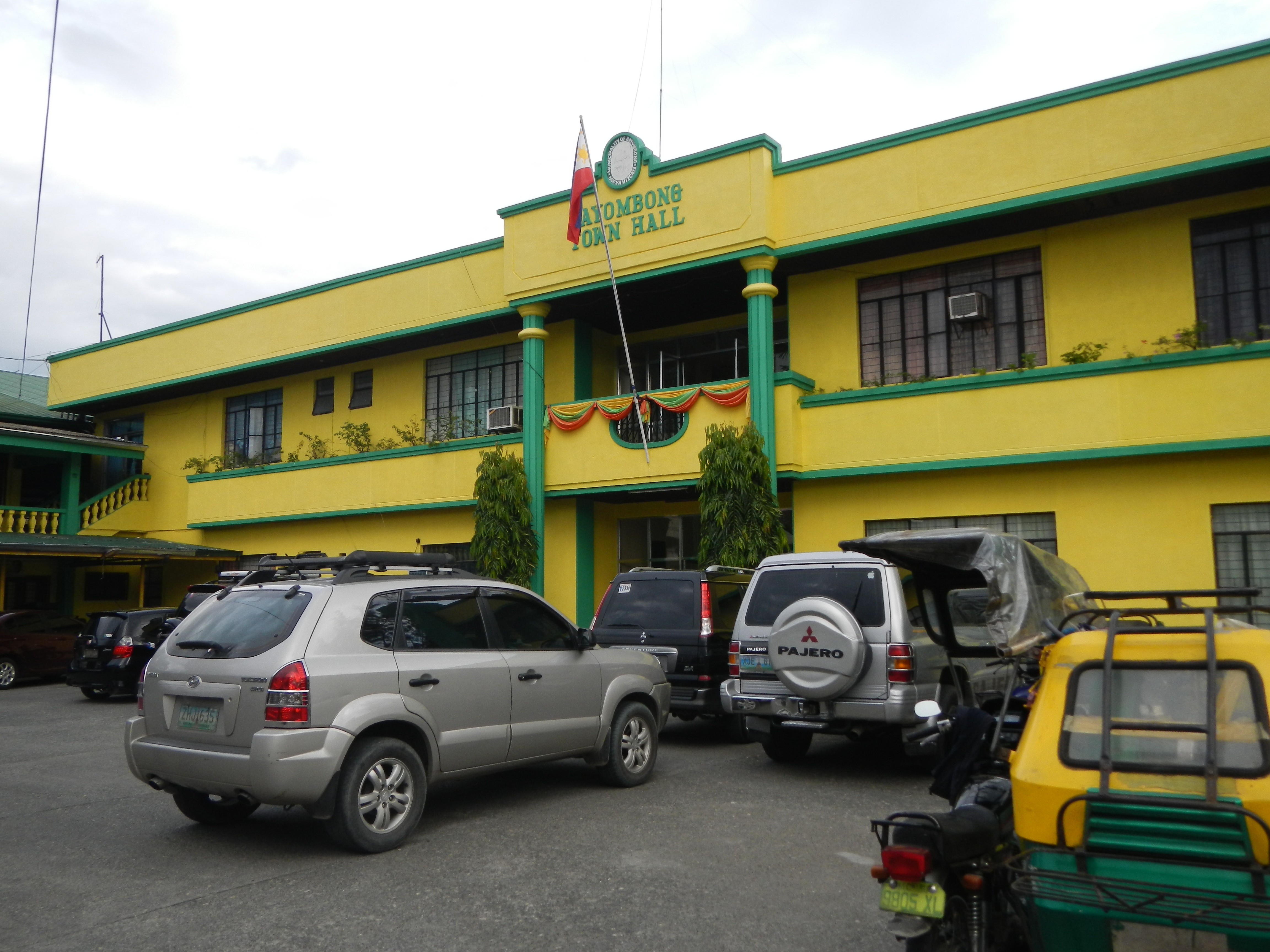 Upload Wizard photos of -- Bayombong, Nueva Vizcaya - Bayombong Municipal Hall [1], and Sangguniang Bayan, Town Proper, downtown, Public market, commercial center, business centre, surrounding offices, tricyle and jeep stop and terminal, Andres Bonifacio and heroes Monuments, Memorial in front of the Rizal Park and Shrine and Bayombong Cathedral - Ayuntamiento de Bayombong, oficina del Alcalde - Coordinates: 16°28'58"N 121°9'3"E [2] - -- Purok 2, Barangay DTM ( Centro) [3] - Bayombong, Nueva Vizcaya & Saint Dominic Cathedral of Bayombong, Bayombong, Nueva Vizcaya[4] located at the heart of the town with the best sounding church bells made of bricks and rare church antiques [5] Bayombong (F-1874) Catholic Rectory Bayombong, 3700 Nueva Vizcaya (includes municipality of Ambaguio), Titular: St. Dominic de Guzman, August 8 Founder: Dominican Friars Parish Priest: Father Teodoro L. Lazo Parochial Vicar: Father Victor M. Abijay.[6] Coordinates: 16°29'1"N 121°9'2"E [7] belongs to the [8] Roman Catholic Diocese of Bayombong [9] [10] - Bayombong, Nueva Vizcaya[11].